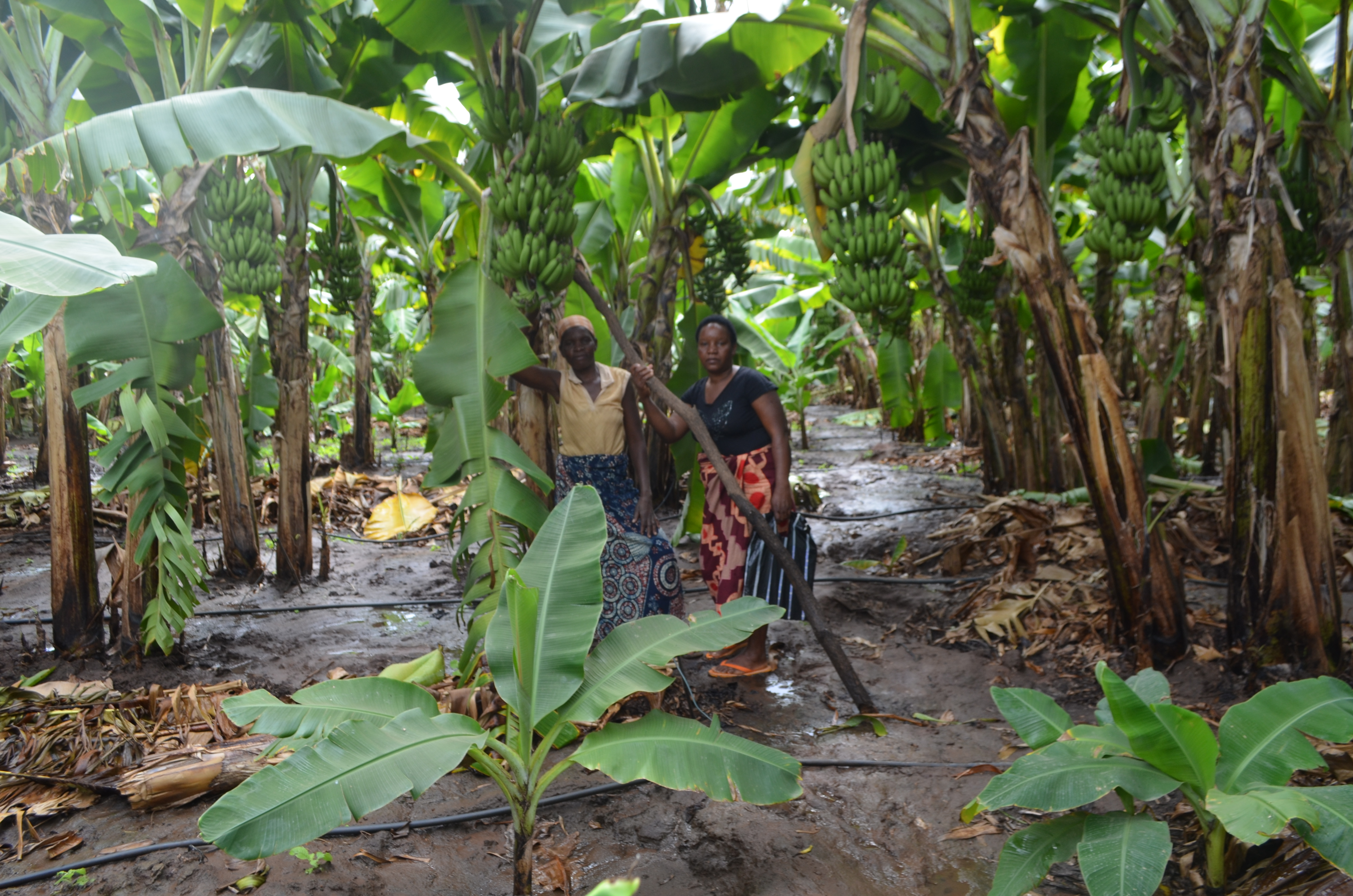 Hard working women of Chiawa in their banana plantation This is an image of "African people at work" from Zambia